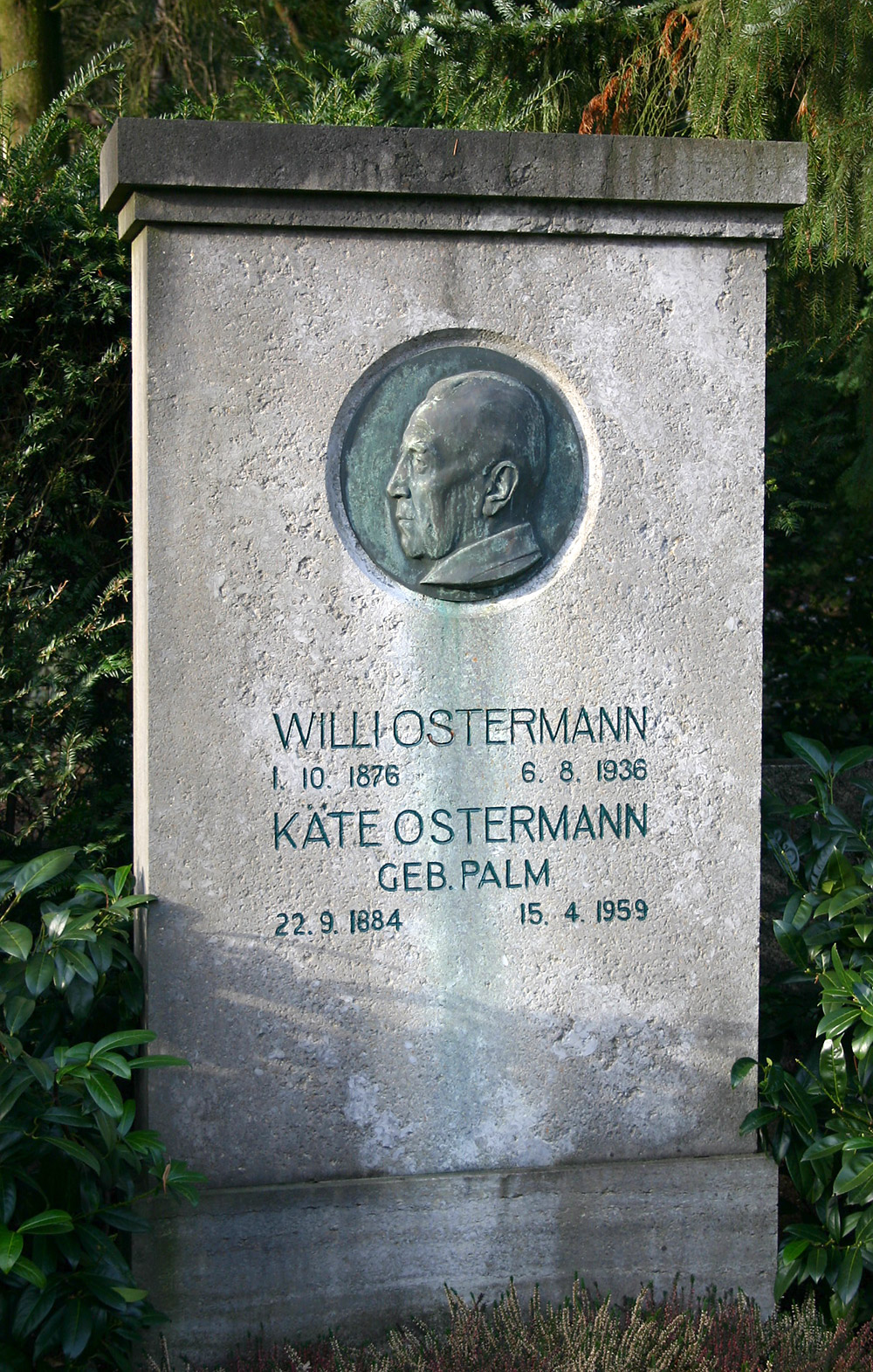 Willi Ostermann gravestone, German carnival songwriter, Cologne, Germany